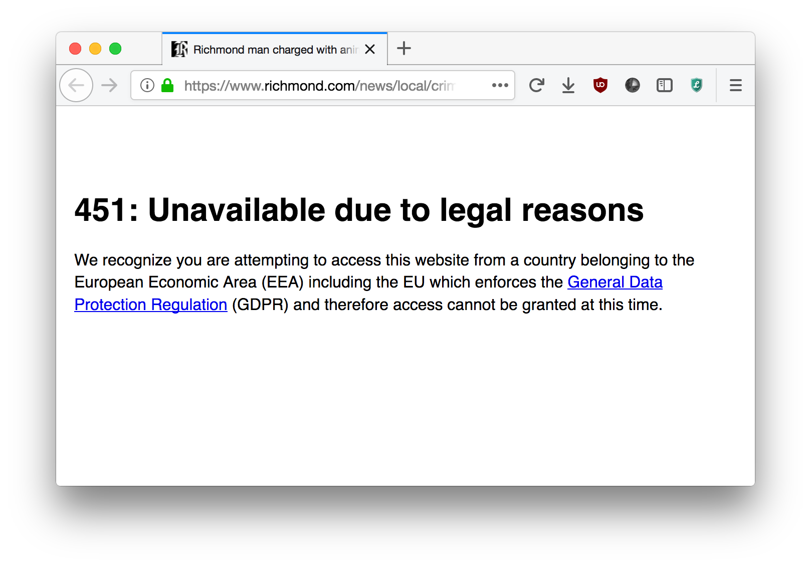 451 Error Code because of GDPR